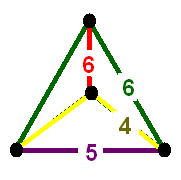 Cantitruncated_600-cell vertex figure